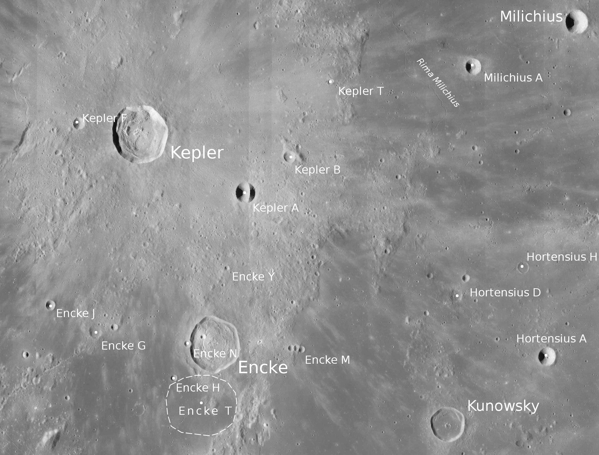 Craters Kepler, Encke and Kunowsky (detail of LRO - WAC global moon mosaic; Mercator projection)